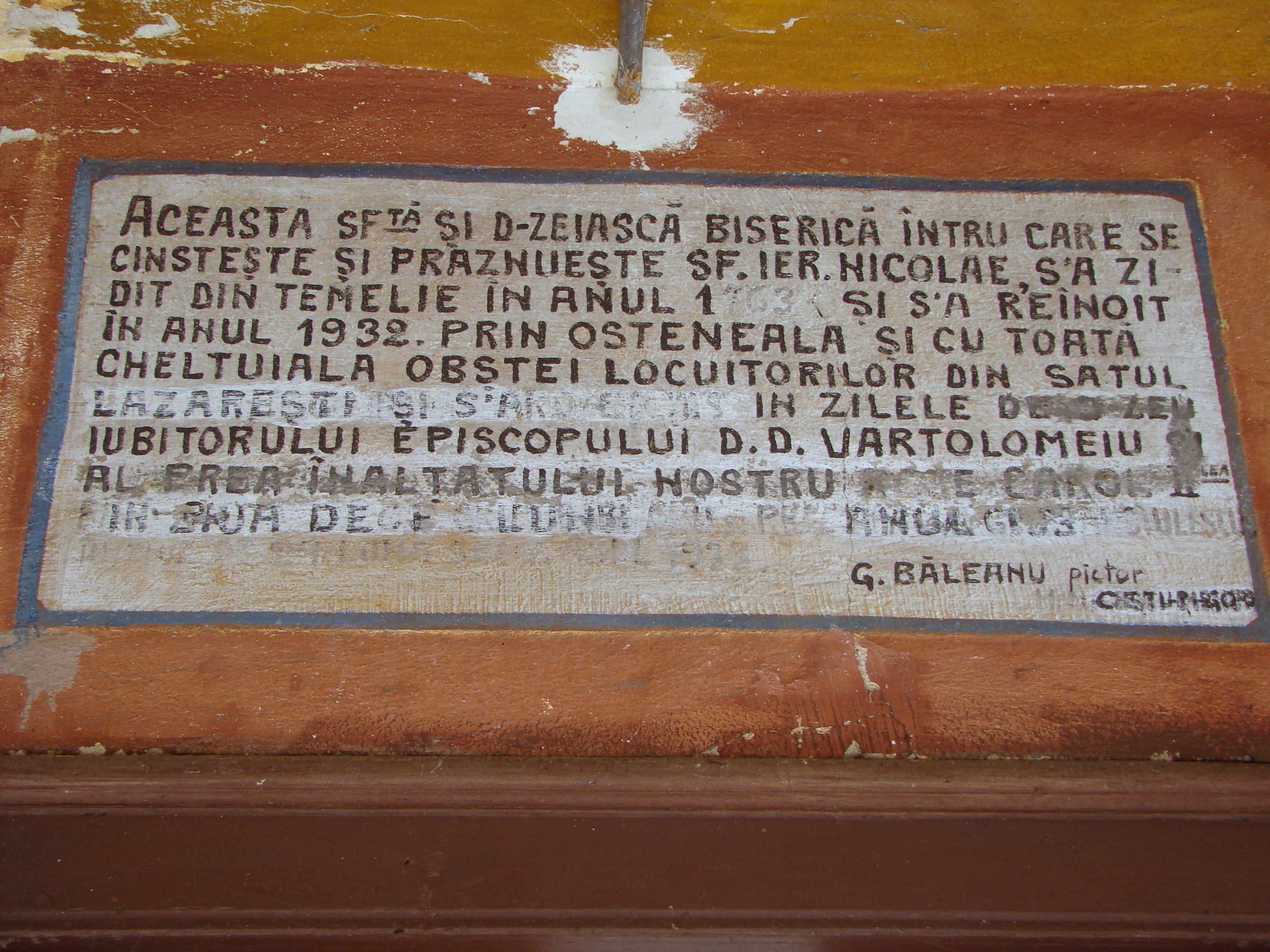 Wooden church in Lăzărești, Gorj county, Romania